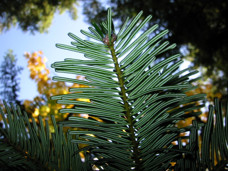 Grand Fir foliage Description: Grand Fir (Abies grandis) foliage underside with Bigleaf Maple (fall foliage), Grand Fir and Douglas-fir behind. Viewpoint location: Kachess Ridge Trail 1315. Kachess Ridge is located in Wenatchee National Forest, Washington, USA, about 26 km southeast of Snoqualmie Pass. GPS: UTM 10 638355E 5236820N (WGS84/NAD83) USGS Kachess Lake Quad [1] Viewpoint elevation: 2760' View direction: East Date and time: 2005:10:04 13:03:07 PDT Camera: Canon PowerShot S110 Photographer: Walter Siegmund ©2005 Walter Siegmund